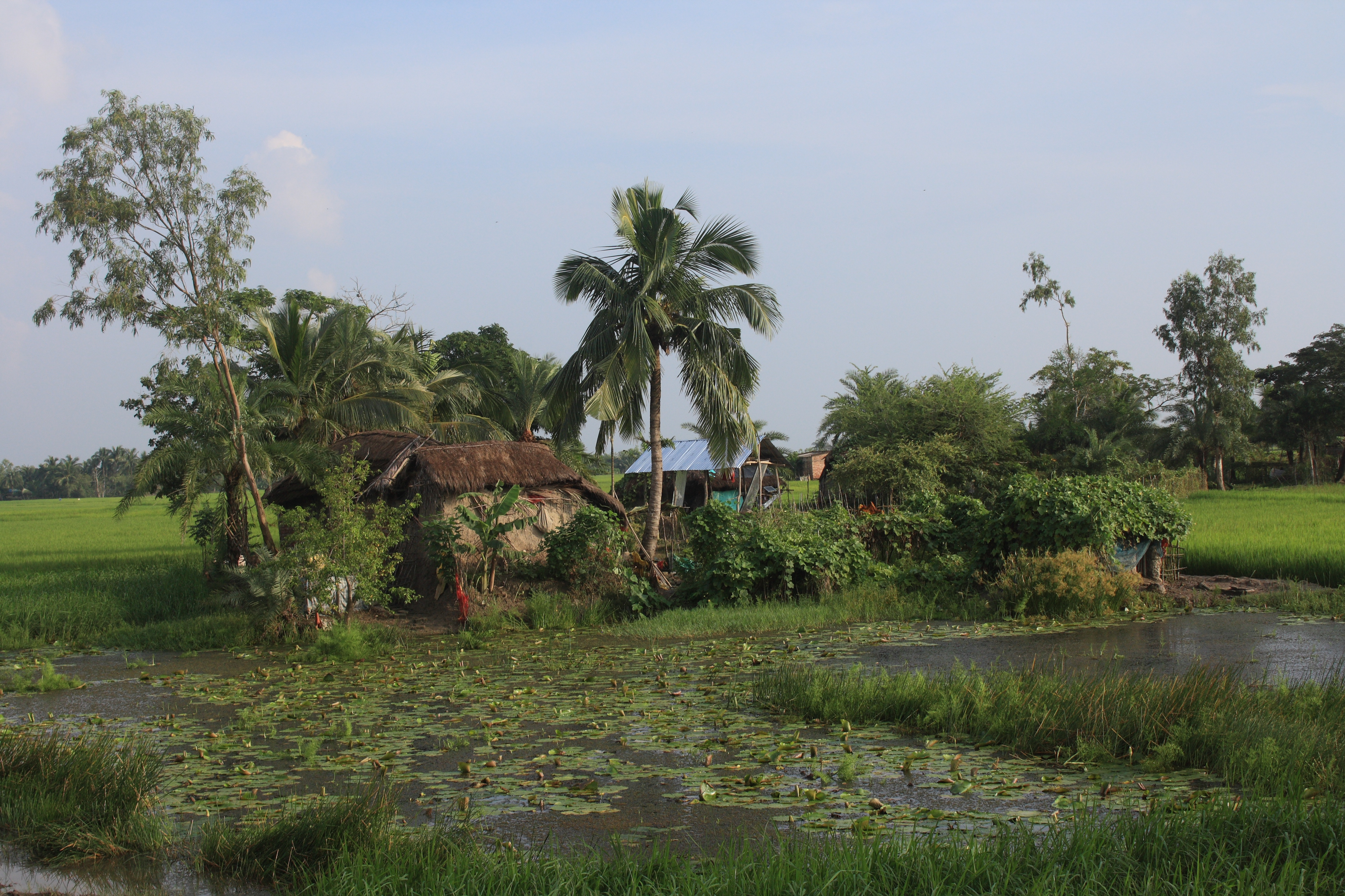 A farm on an island in the ganges delta, sunderban area, India. In the background there are plenty of rice fields, in the foreground, there is a water pond with lotos plants. As the island is not connected to the electricity network, this house is provided with solar panels.